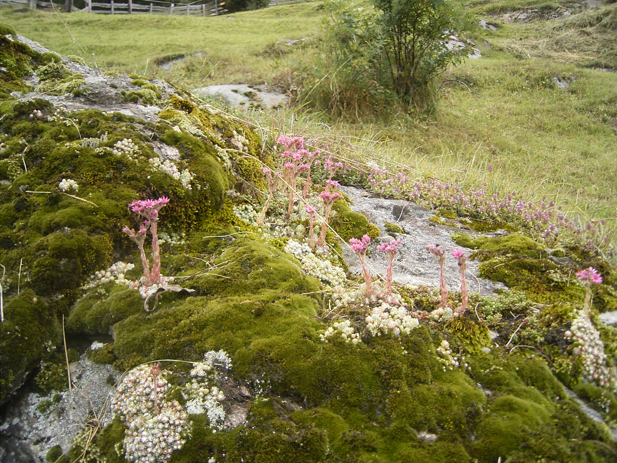 This photo shows Sempervivum arachnoideum